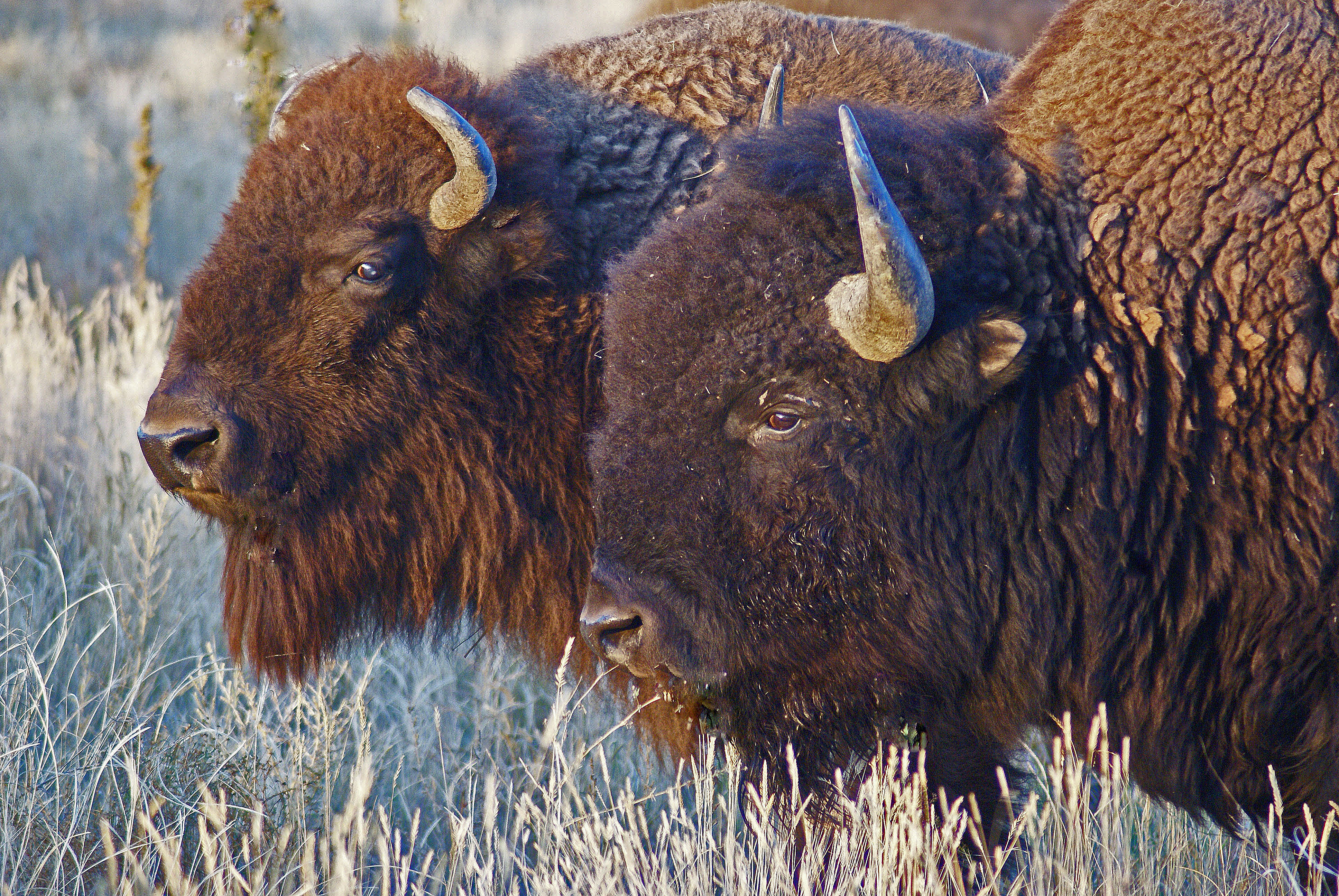 A photo of two bison (scientific name Bison bison) won first place in 2011. Photo Credit: Douglas Bowen